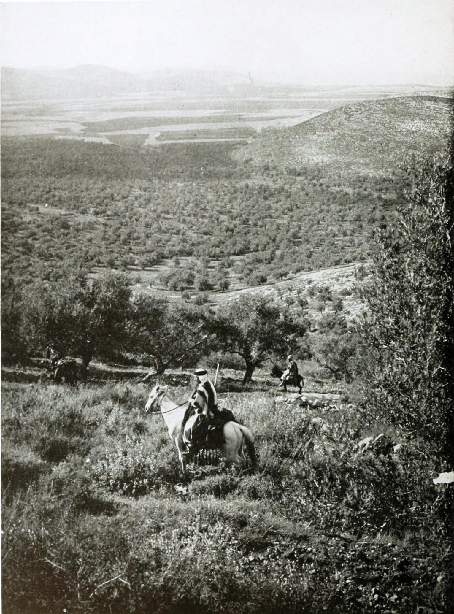 Plain of Dothan. Dotan Valley, 1910